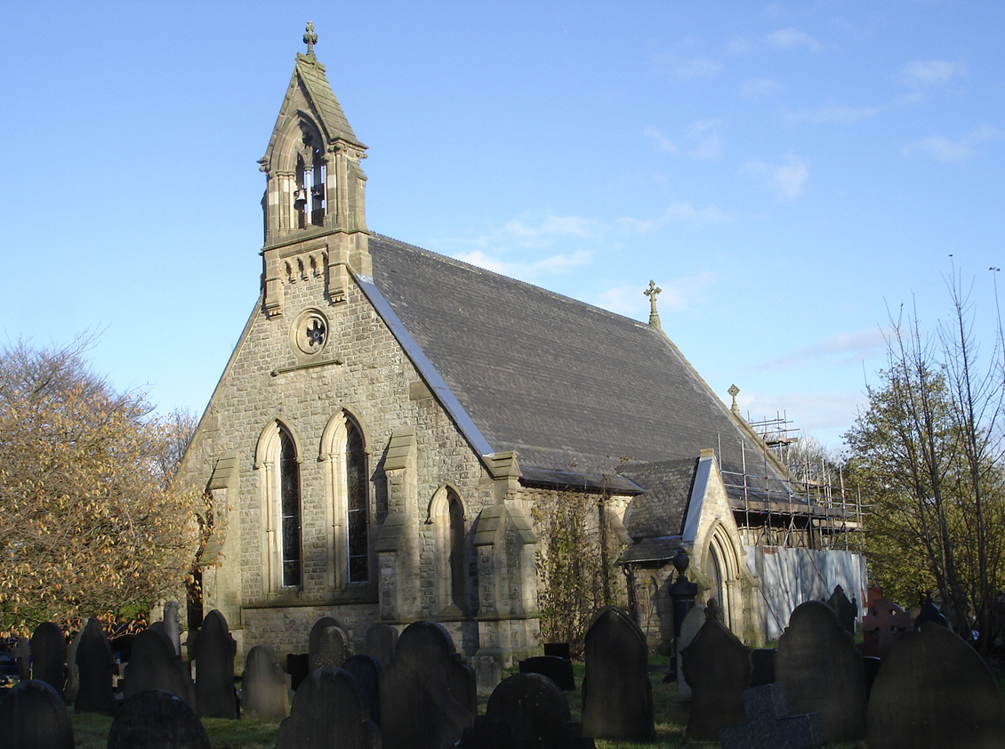 St Michael's parish church, Great Lever, Bolton, Greater Manchester, seen from the southwest